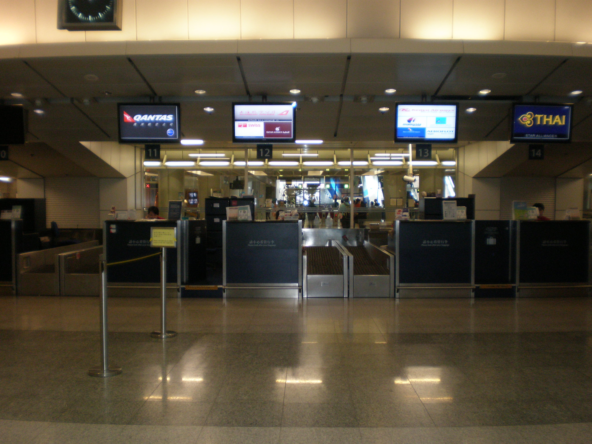 The check-in counter for Hong Kong International Airport (HKG) at Kowloon Station.